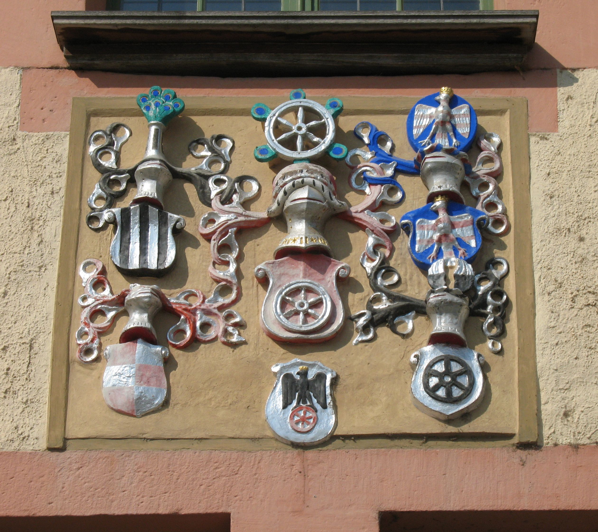 Coats of arms in Sömmerda in Thuringia, Germany